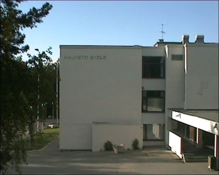 Hauketo Secondary School, Oslo, Norway